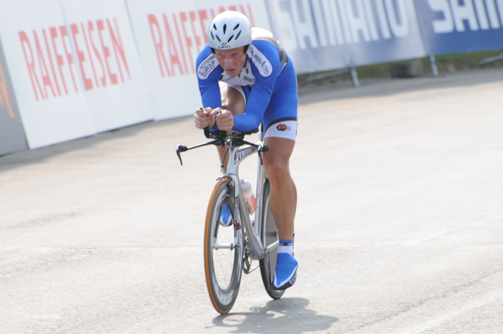 Ervin Korts-Laur at UCI World Championships in Mendrisio, Switzerland